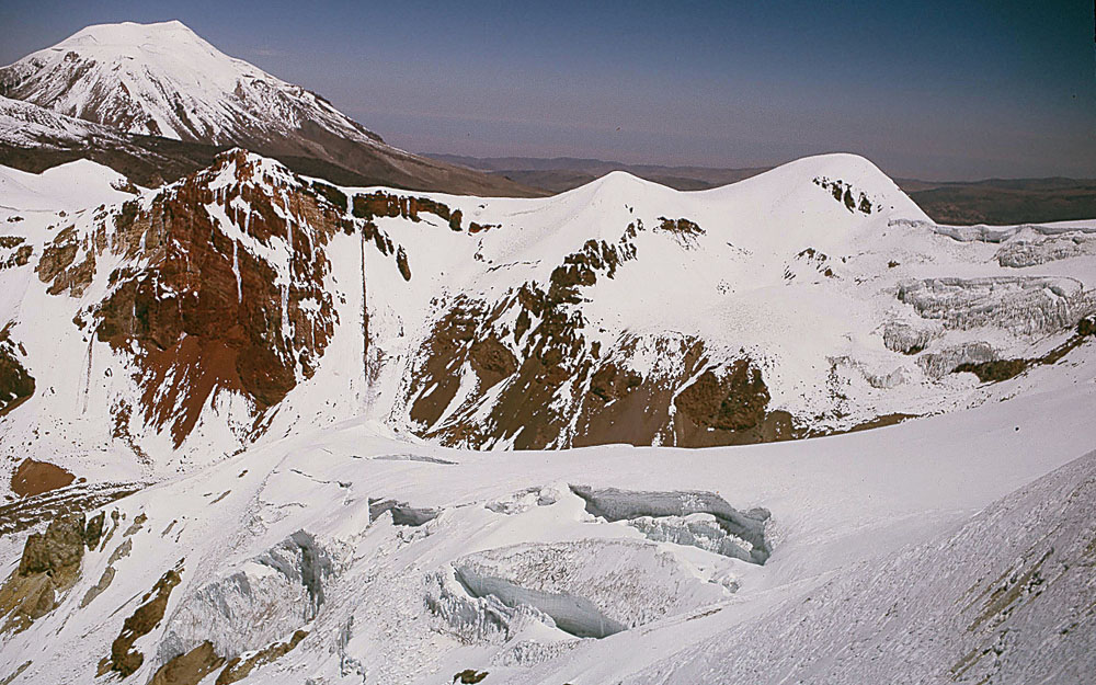 Approaching summit of Sabancaya in 1966, with Volcan Ampato in the background.